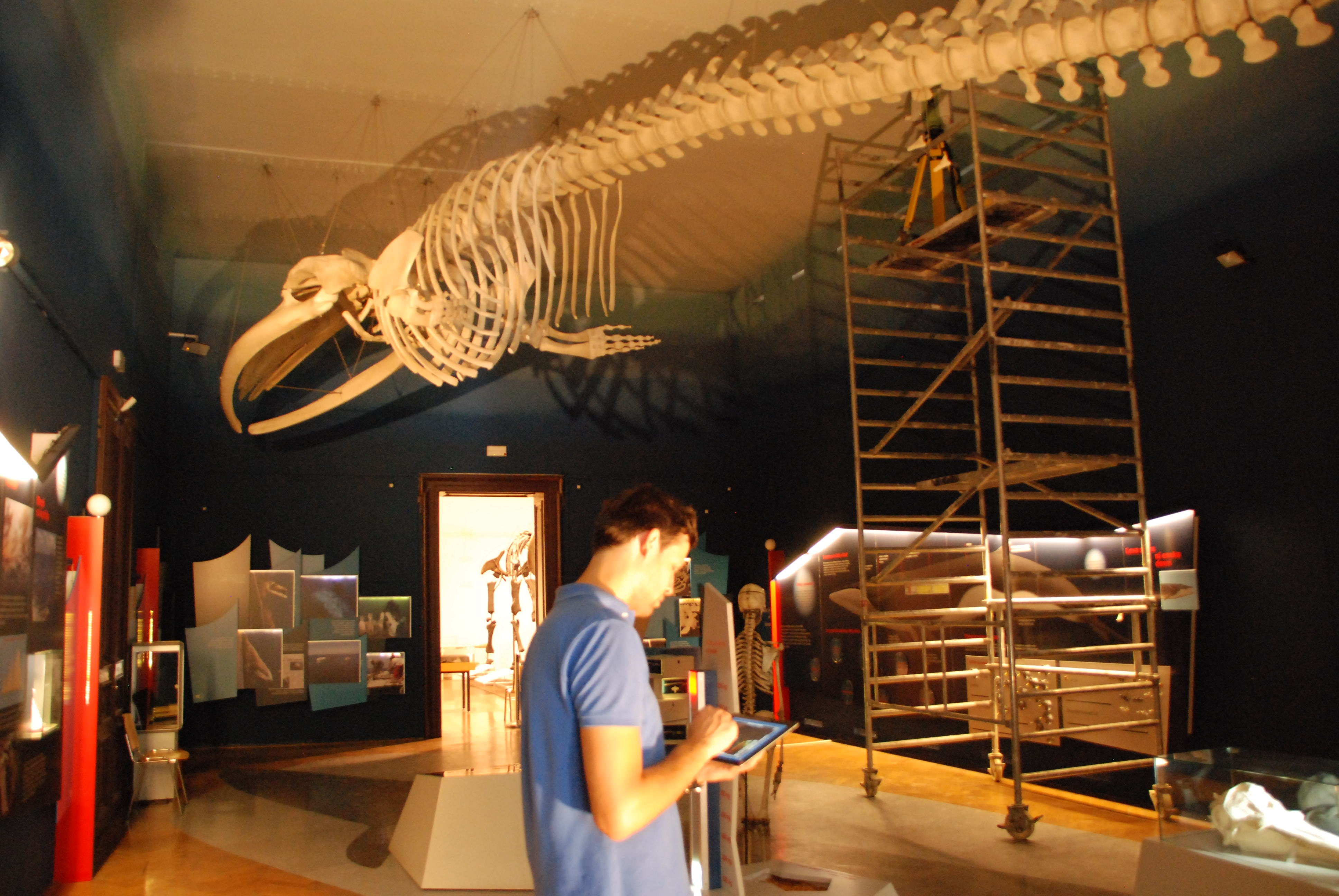 3D scanning of the skeleton of the fin whale female Lenora in the Natural History Museum of Slovenia. It was carried out on 5 August 2013 by the company Magelan using Leica C10 scanner.(info, in Slovene)